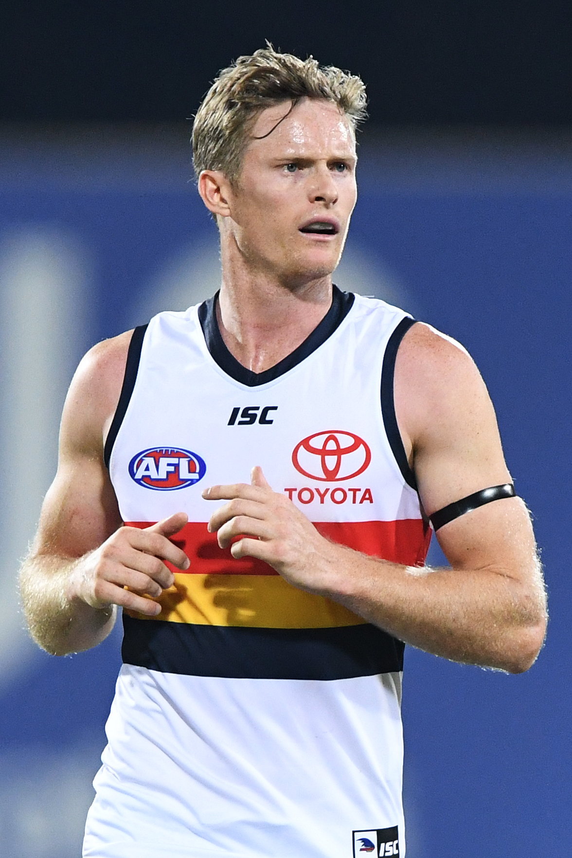 Alex Keath of Adelaide during the 2019 AFL round 11 match between Melbourne and Adelaide at TIO Stadium on Saturday, 1 June 2019 in Darwin, Northern Territory.